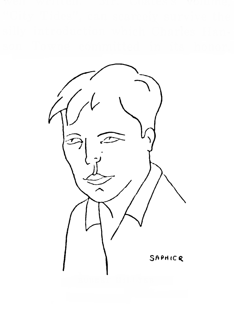 Robert Hillyer